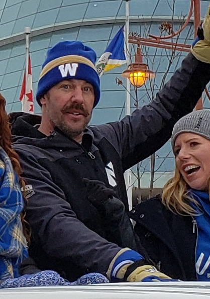 Kyle Walters on the right with Wade Miller on the left, at the Winnipeg Blue Bombers 2019 Grey Cup parade.